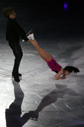 Kyoko Ina & John Zimmerman perform a "headbanger" lift on the 2008 Stars on Ice tour stop in Portland